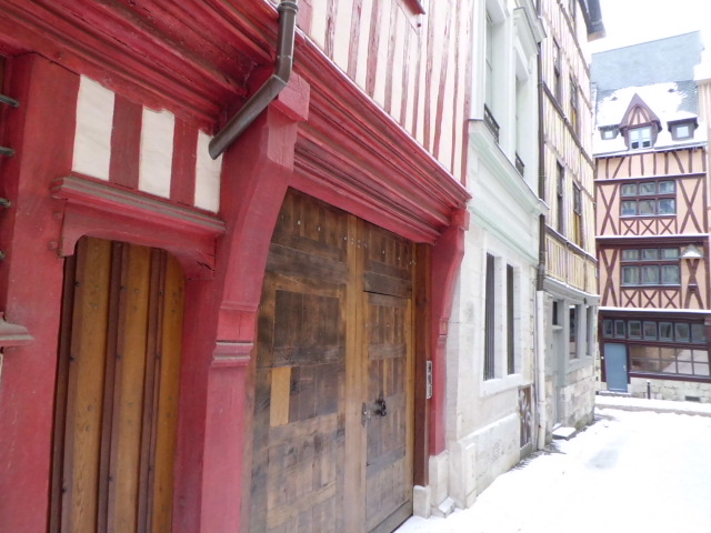 Old half-timbered houses at Rouen (Normandie)